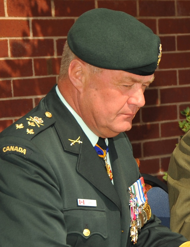 Canadian Lieutenant-General Jan Arp, cropped from 090714-F-6217S-002 From left, Canadian Forces Lt. Gen. Jan Arp, U.S. Marine Corps Gen. James N. Mattis and British Royal Navy Vice Adm. Robert G. Cooling perform a signing ceremony during the change of responsibility for the position of chief of staff of NATO’s Headquarters, Supreme Allied Commander Transformation July 14, 2009, in Norfolk, Va. Cooling relieved Arp as chief of staff during the ceremony. (DoD photo by Master Sgt. Chris Steffen, U.S. Air Force/Released)